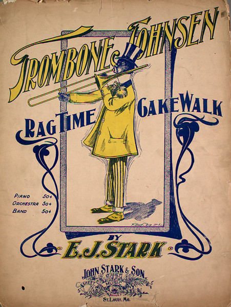 "Trombone Johnsen: Rag Time Cake Walk" E.J. Stark. St. Louis, MO: John Stark & Son, Sheet Music Publishers, 1902 sheet music cover.